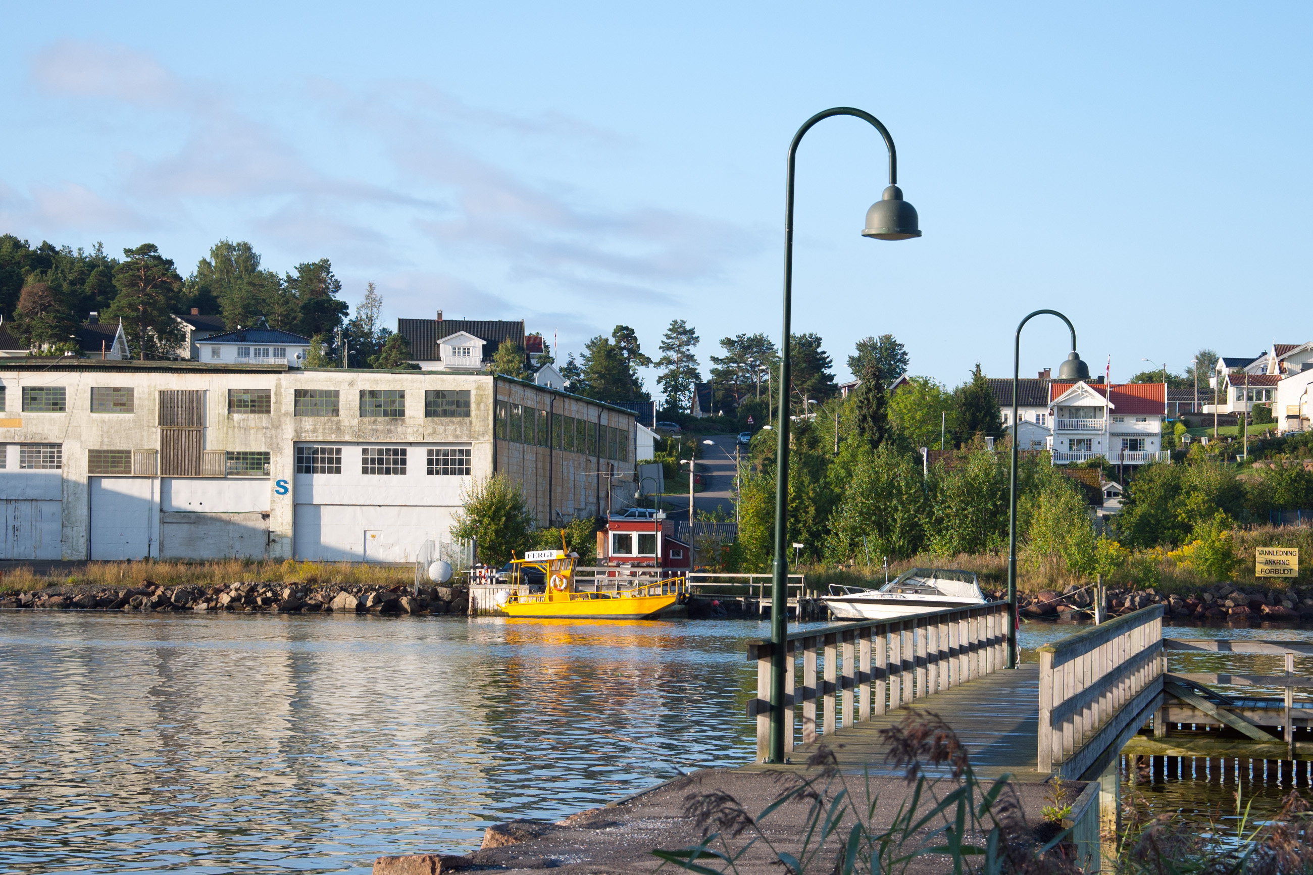 The Ferry "Ole III" in Husøysund, Tønsberg, Vestfold, Norway